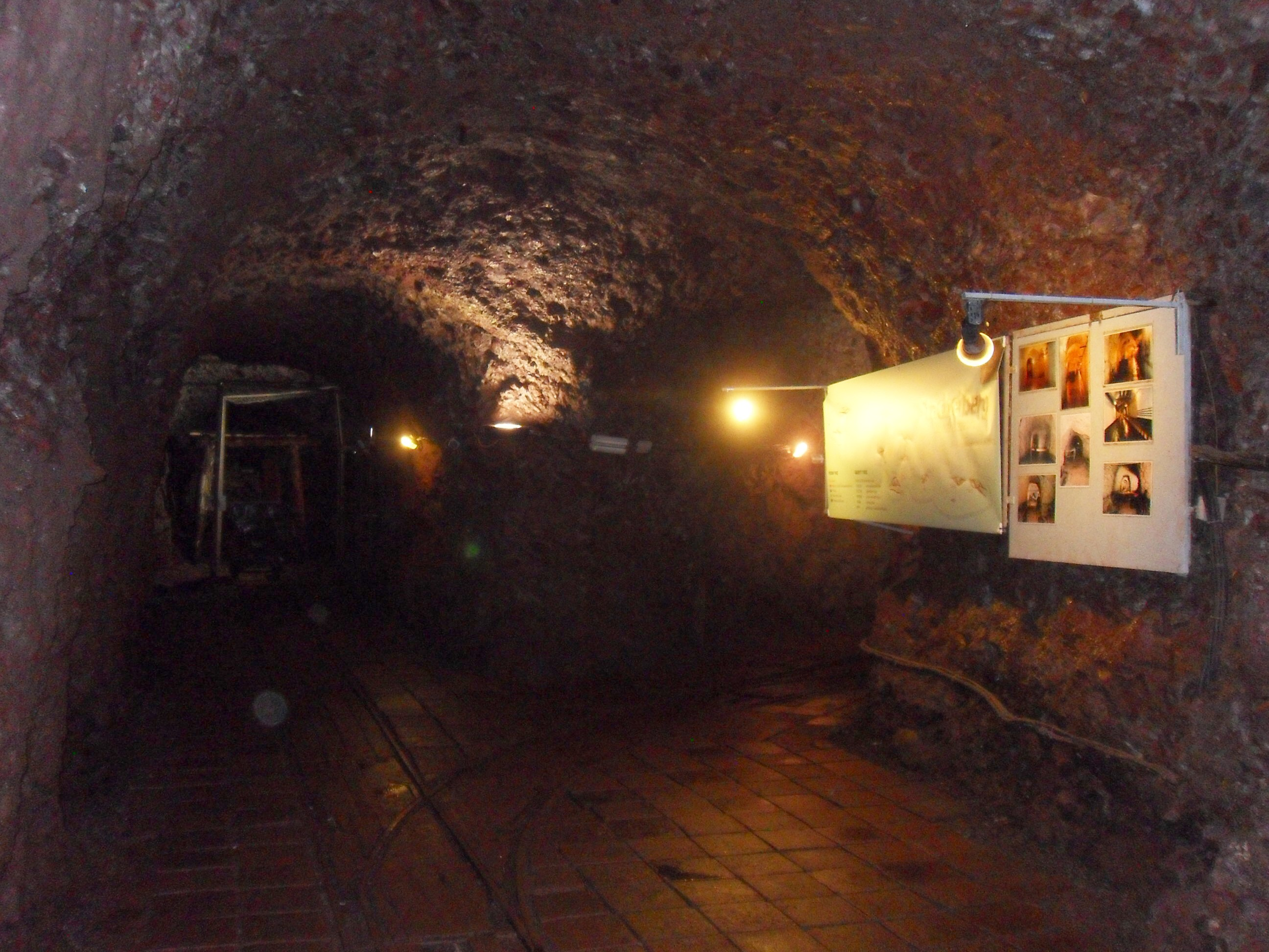 Stachelberg fortress, Trutnov District, Czech Republic